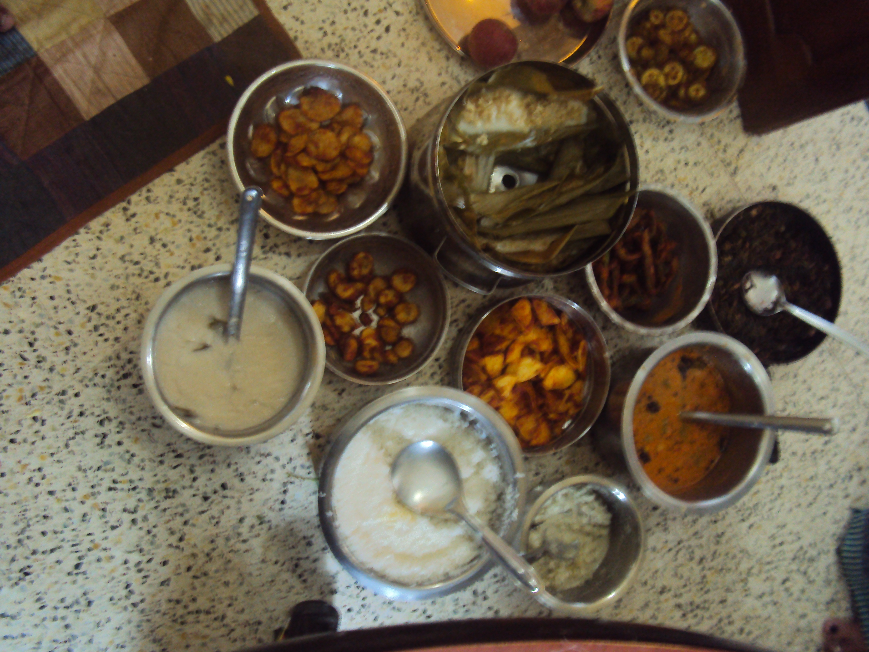 this is the different types of food prepared during gauri puja by Saraswat Brahmins